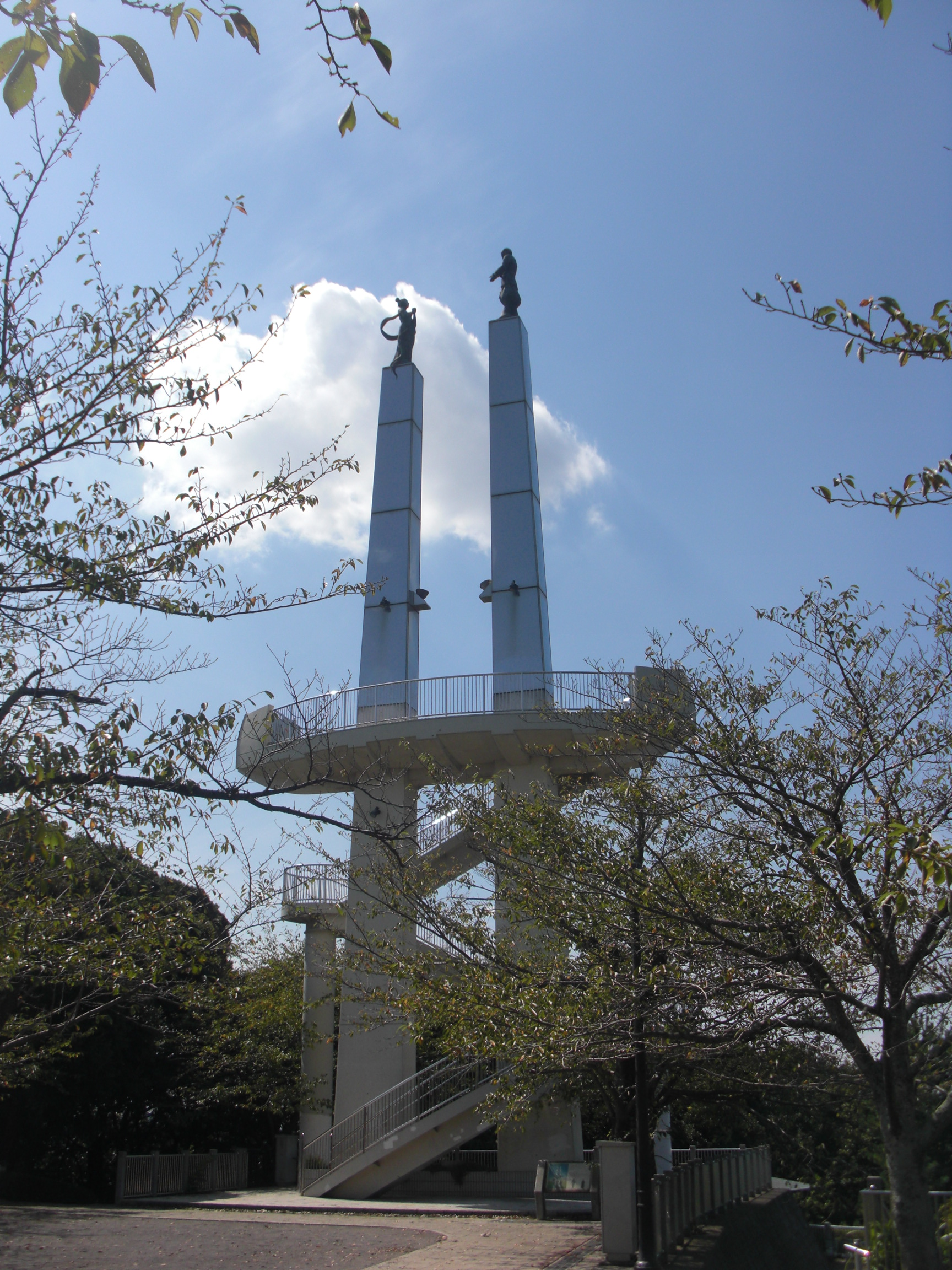 This is the Kimisarazu Tower, which is located in Kisarazu, Chiba, Japan.